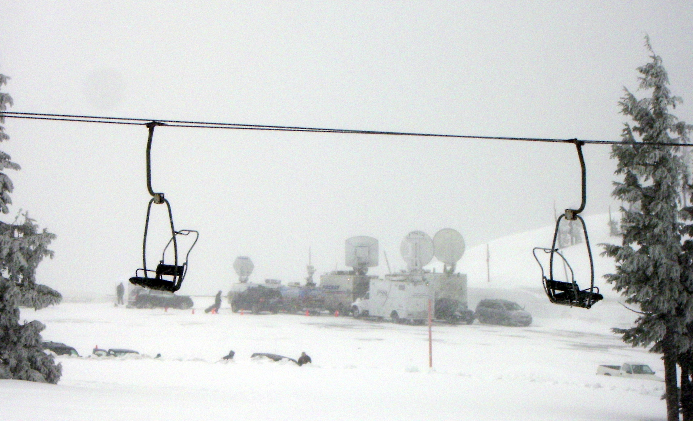 News crews camped out at Timberline Lodge while some mountain climbers were waiting for rescue. All eight climbers and a dog returned safely, one person and the dog had minor injuries.